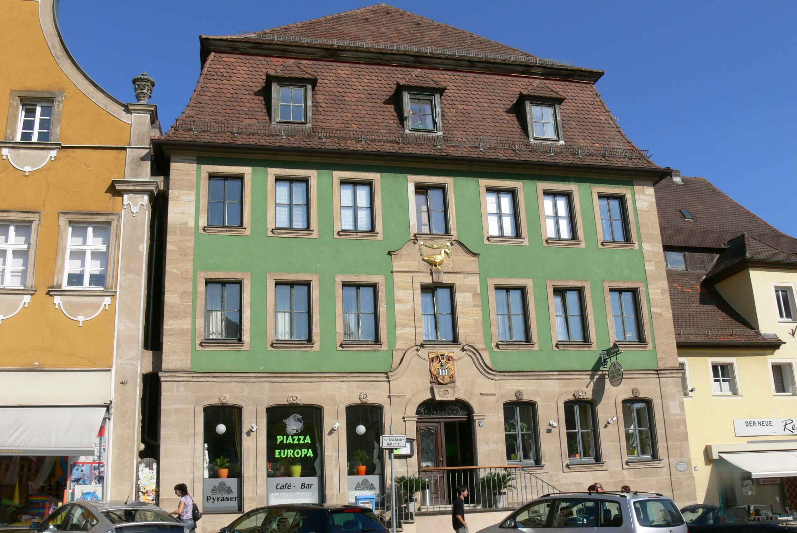 Weißenburg ( Bavaria ). Market square Nr. 9.